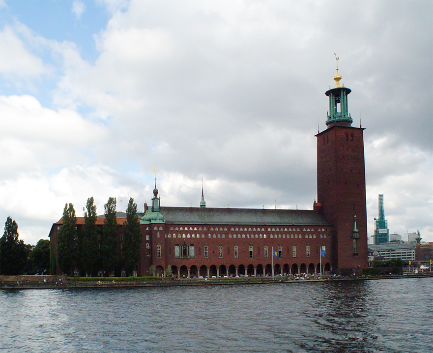 Stockholm City Hall